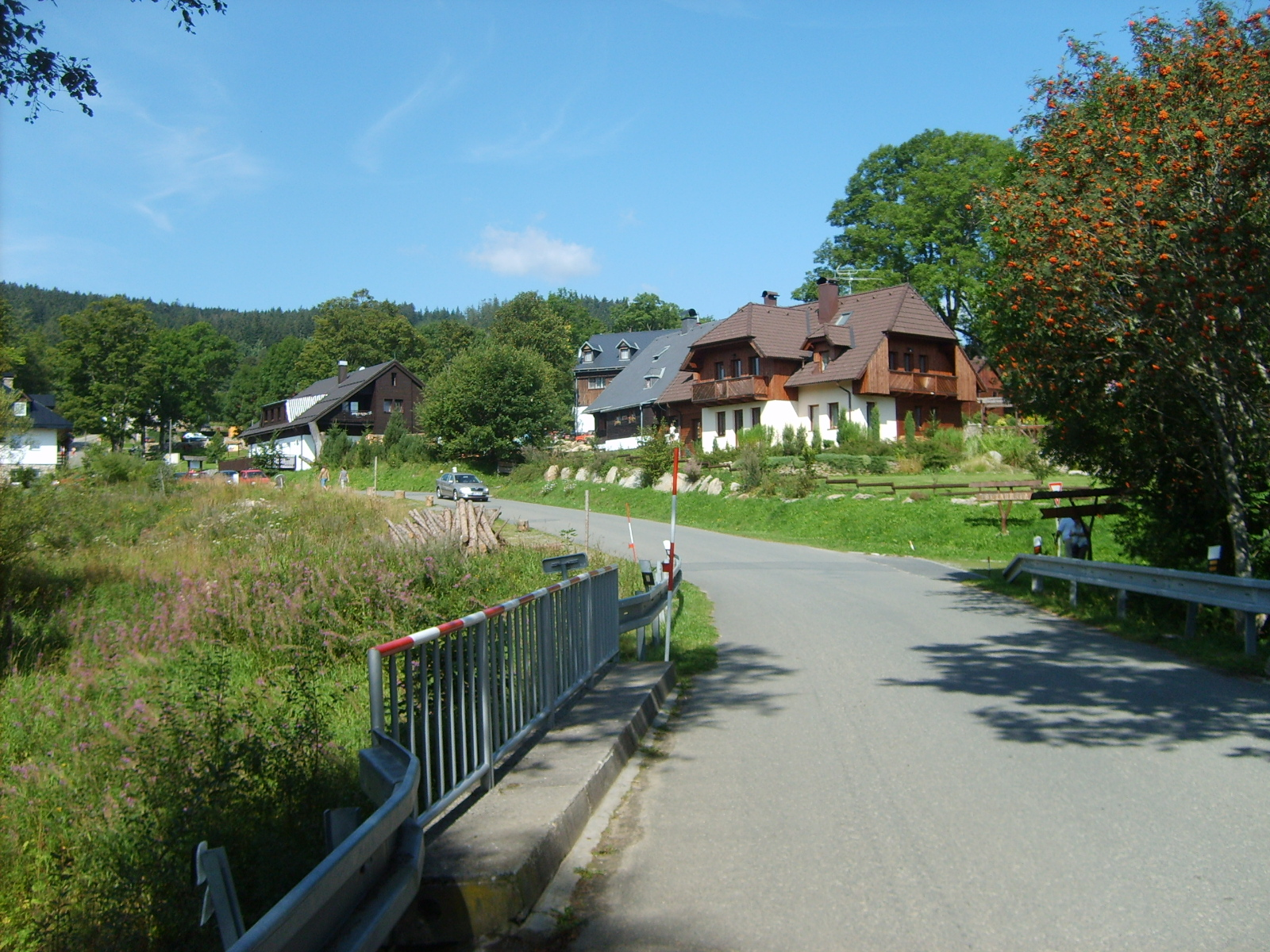 Entry to Prášily village from way of Srní.